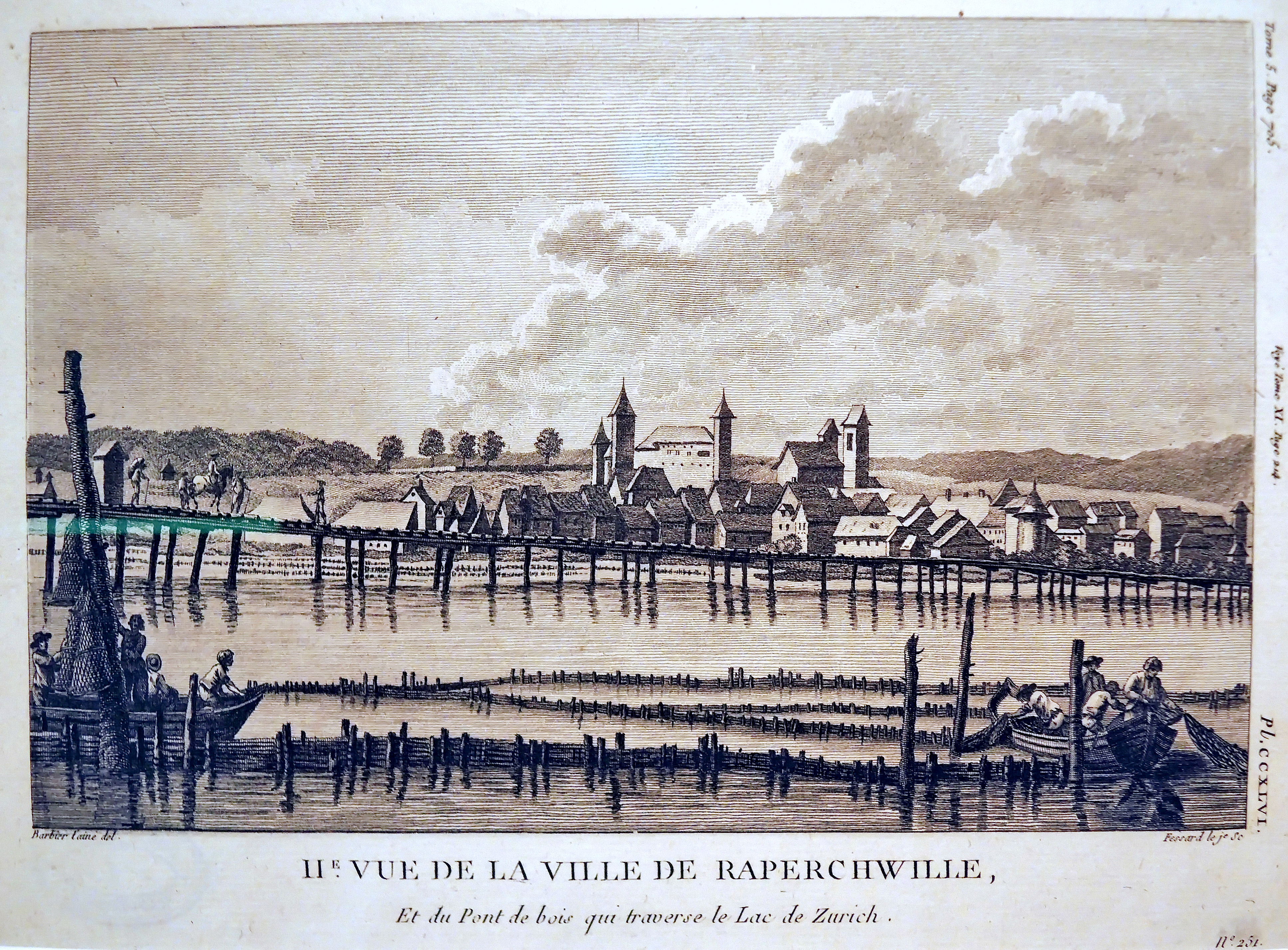 Holzbrücke, as seen from Obersee (upper Lake Zürich) nearby Hurden, Rapperwil (Switzerland) in the background.